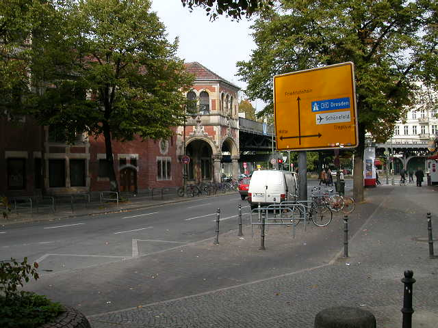 Schlesisches Tor, Kreuzberg, Berlin. Took this pic myself Oct '03, released under the GFDL.